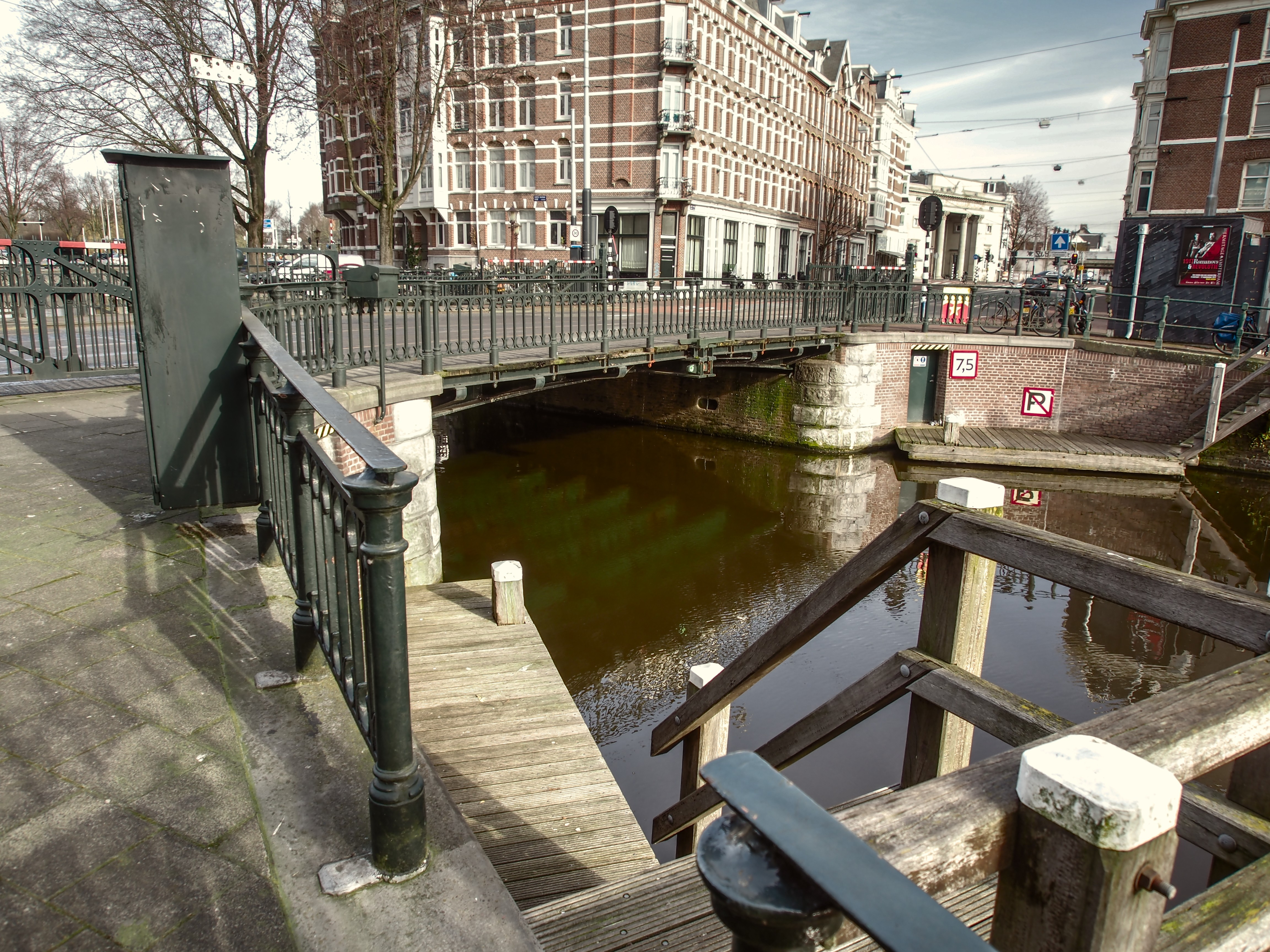 Photo taken at Amsterdam, The Netherlands. Processed with Fusion F.3 (HDR; Mode 1).